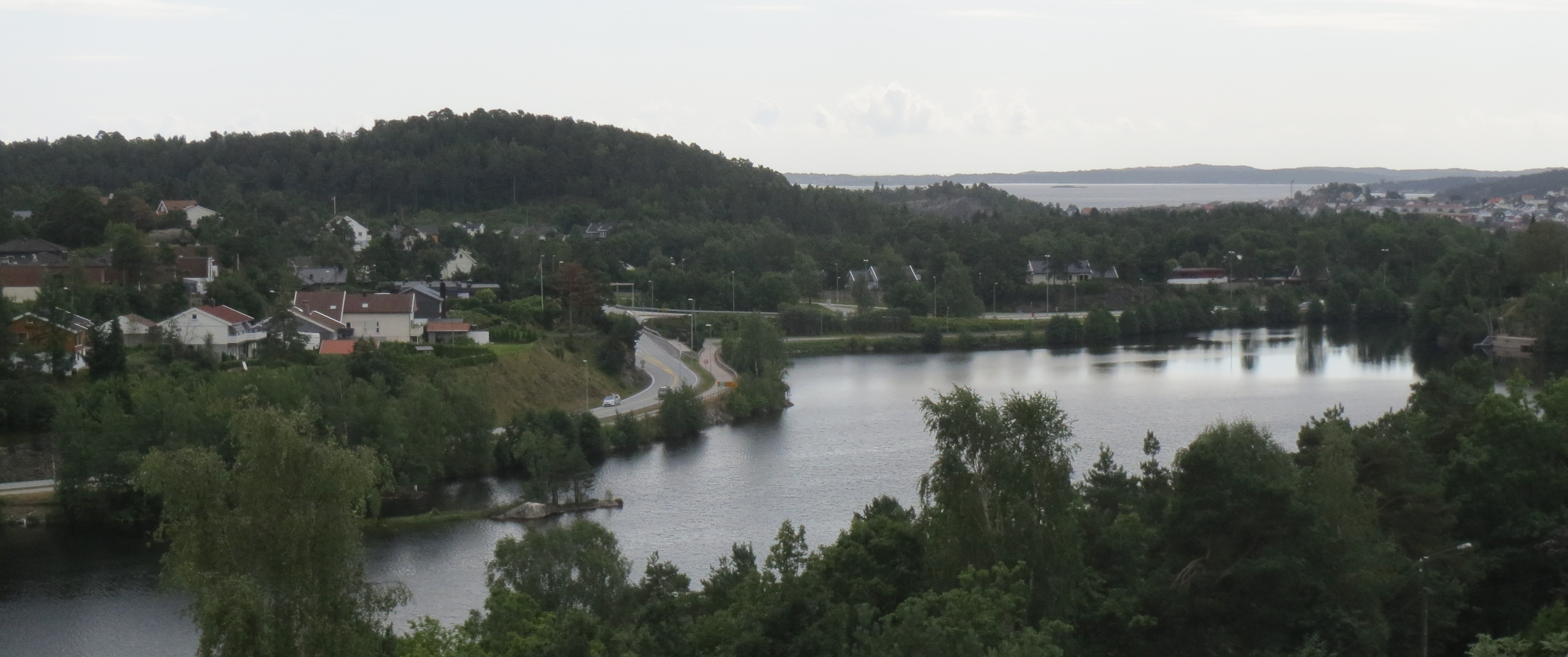 Vollevannet from Gimlekollen